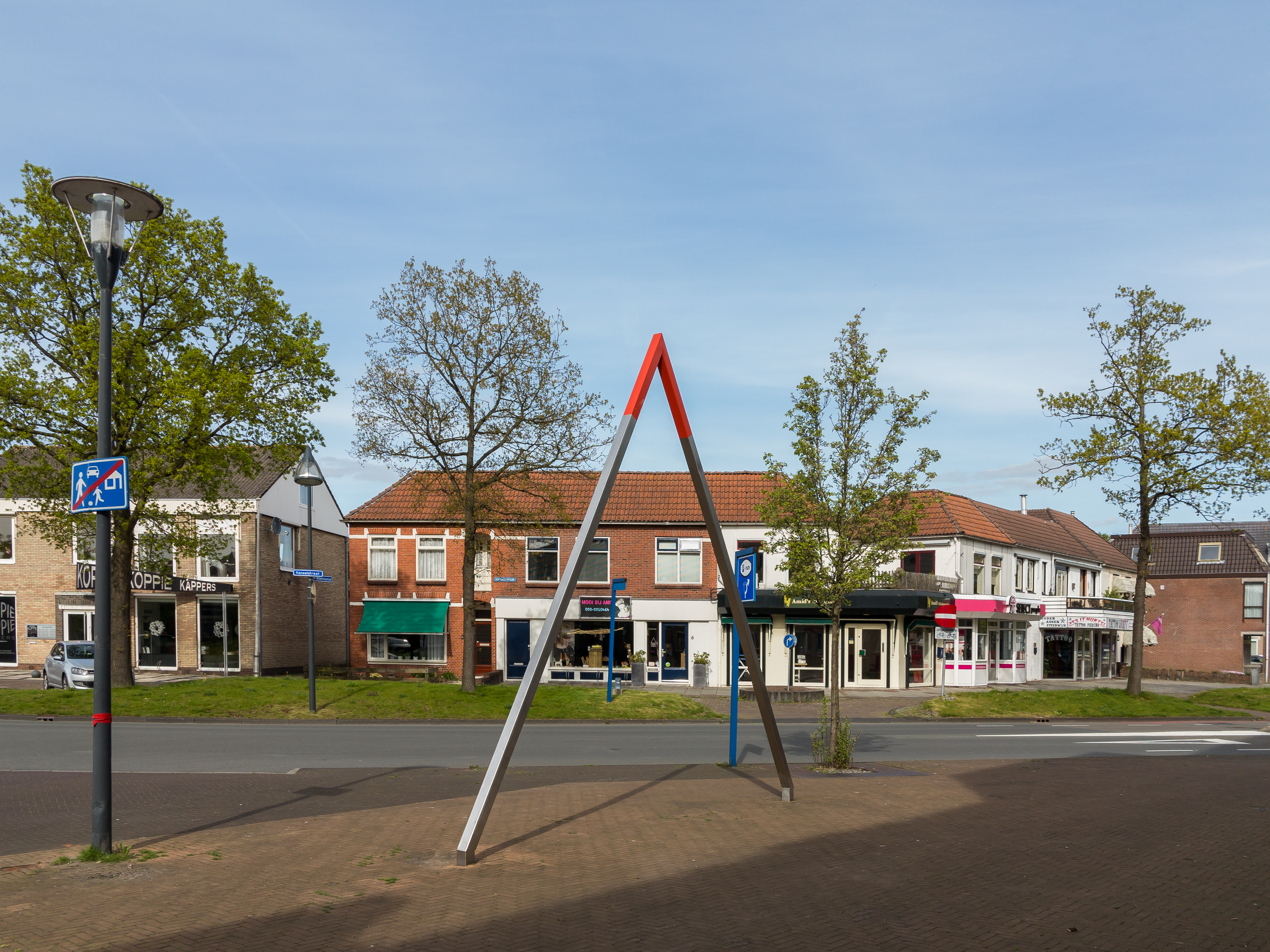 Roden, view to a street: Kanaalstraat-Julianaplein